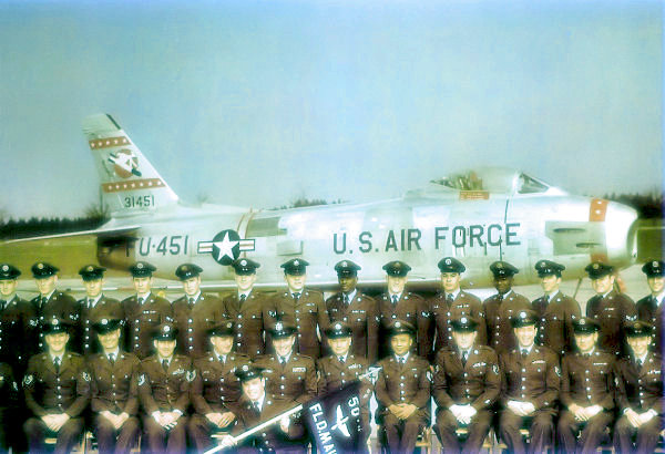 Airmen of the 50th Field Maintence Squadron pose in front of one of their aircraft, North American F-86H-10-NH Sabre serial 53-1451 of the 417th Fighter-Bomber Squadron - Toul Air Base France, Summer 1956